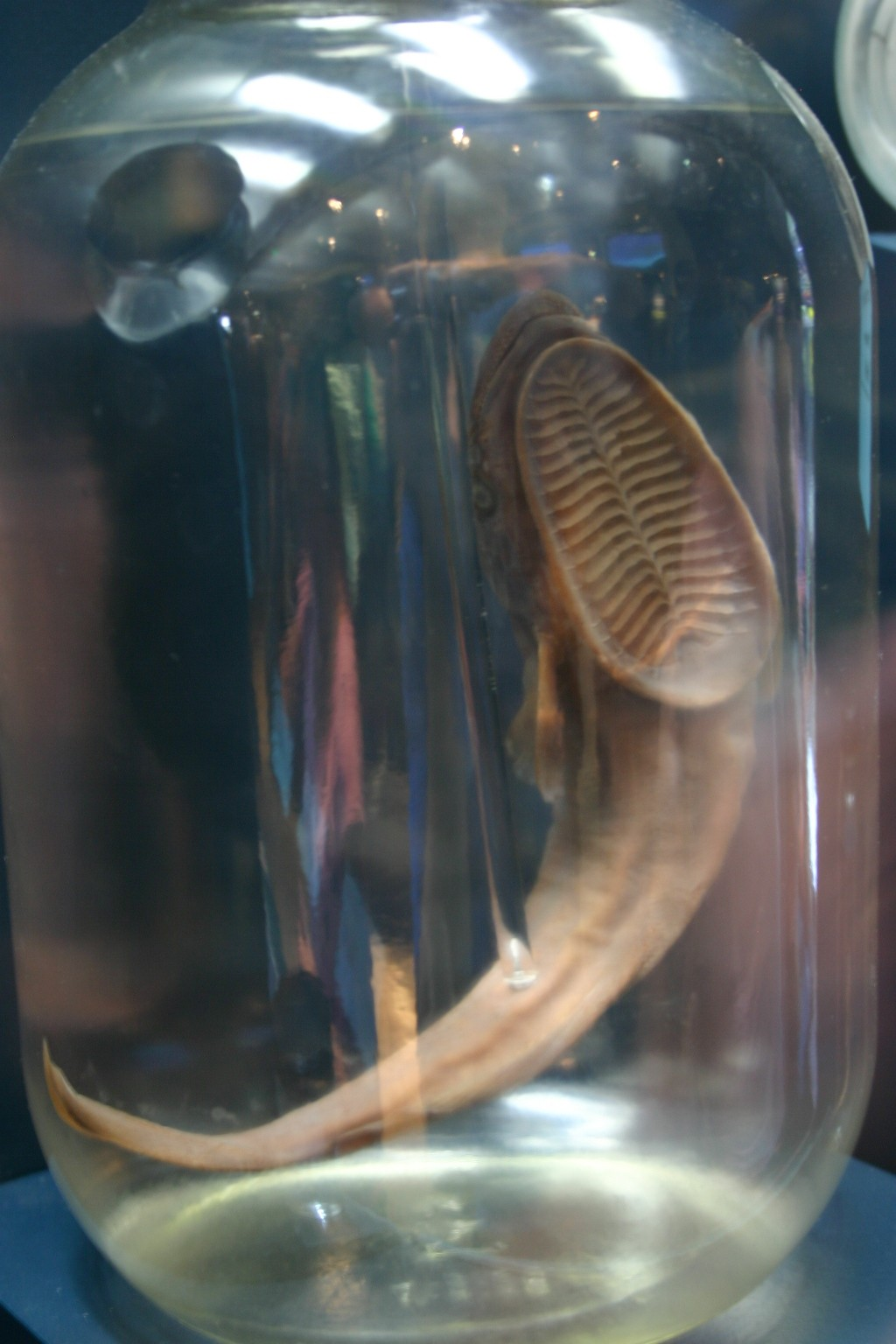 Common remora Remora remora specimen in a jar at the Smithsonian